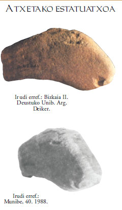 Image of the Paleolithic statue of Atxeta, as depicted in the ETOR Entziklopedia Enblematikoa